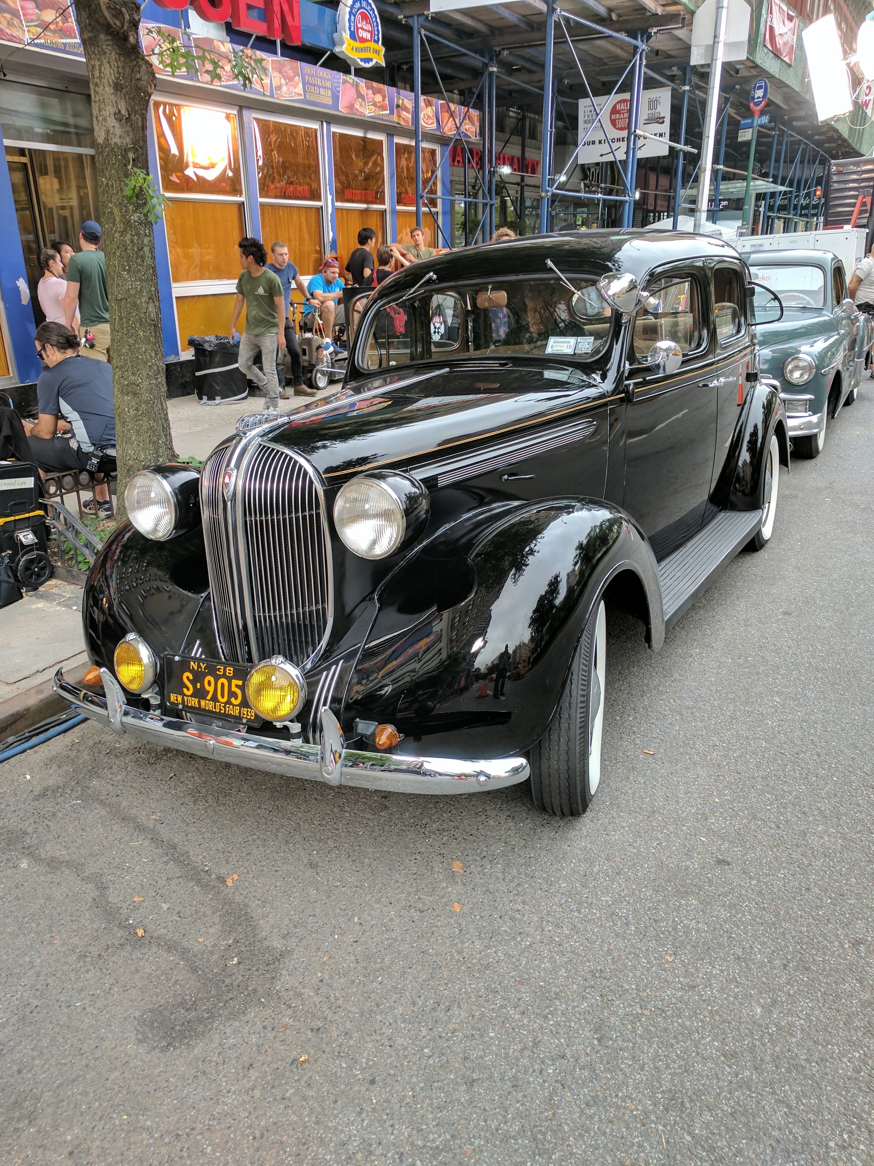 1938 Plymouth P6 Sedan